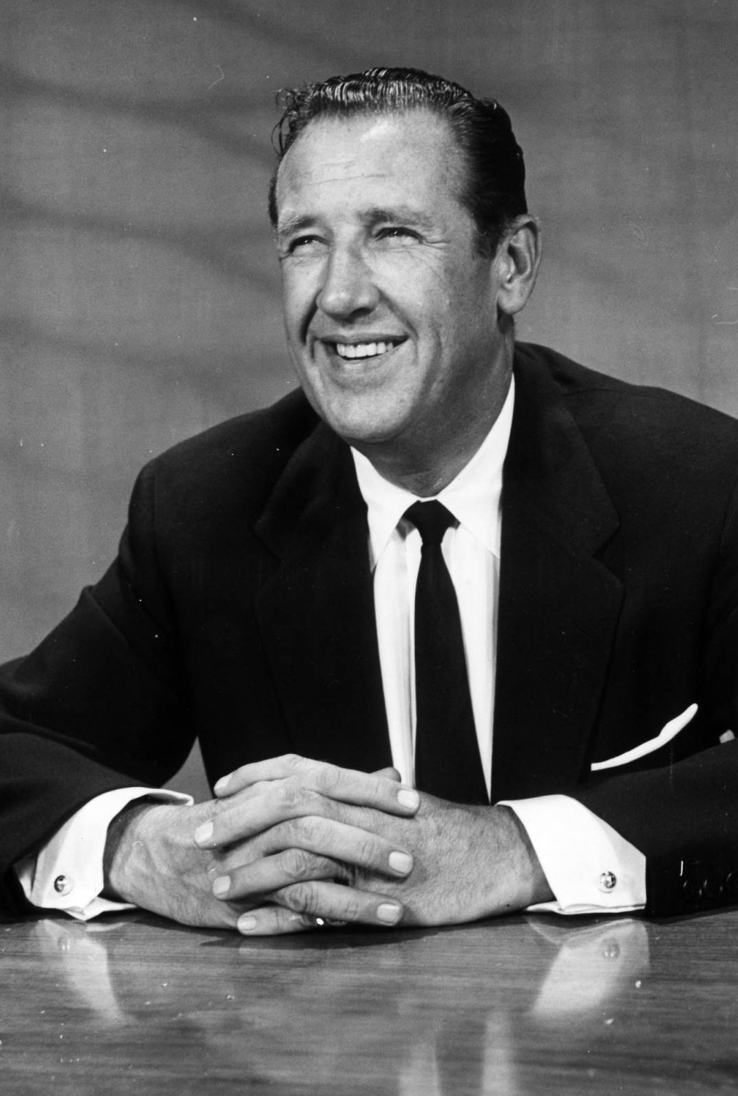 Portrait of Robert F. Six, CEO of Continental Airlines from 1936 to 1980.